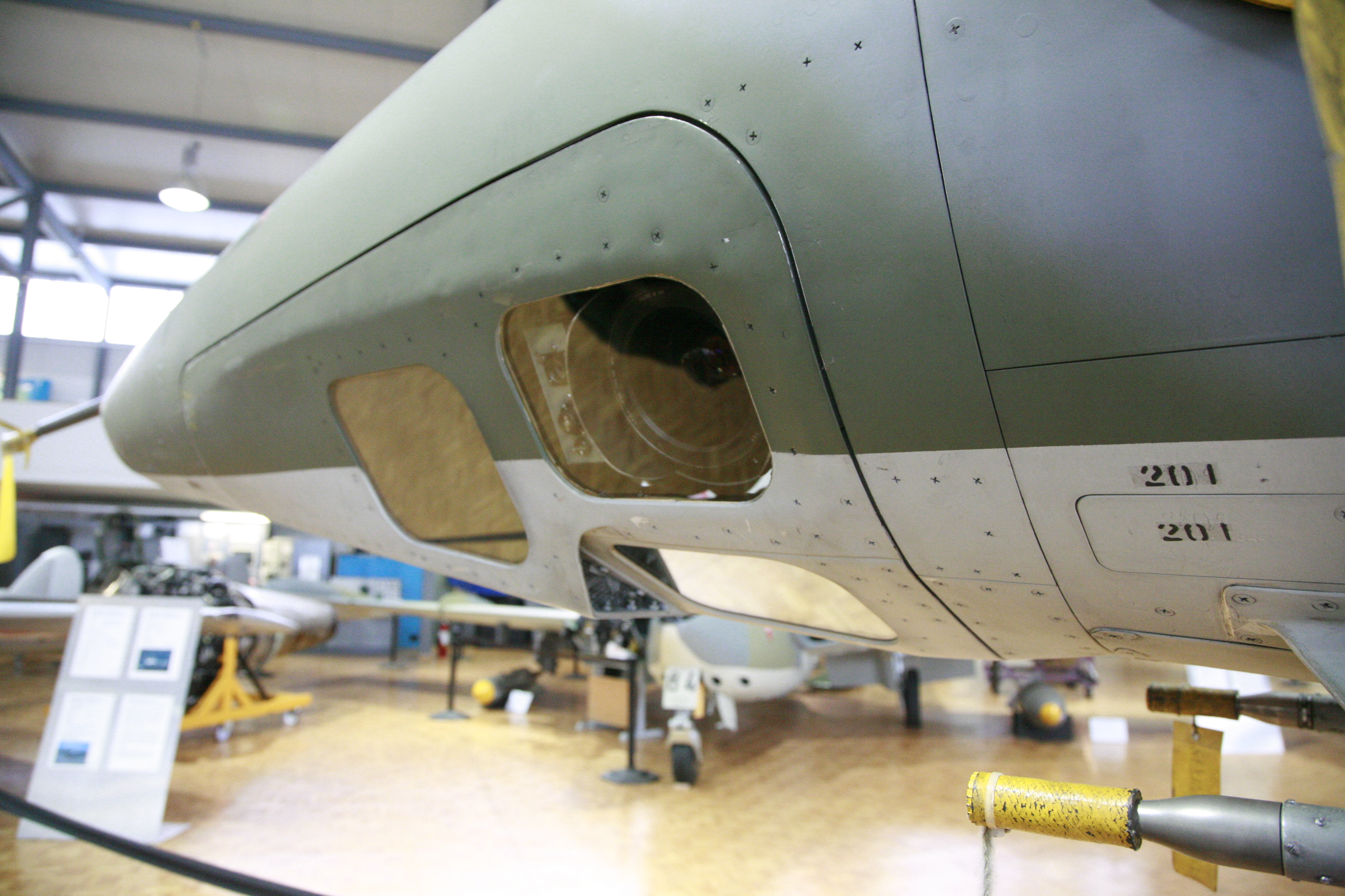 Dassault Mirage III-R (reconnaissance version) of the Swiss Air Force, on display at Payerne Airbase.